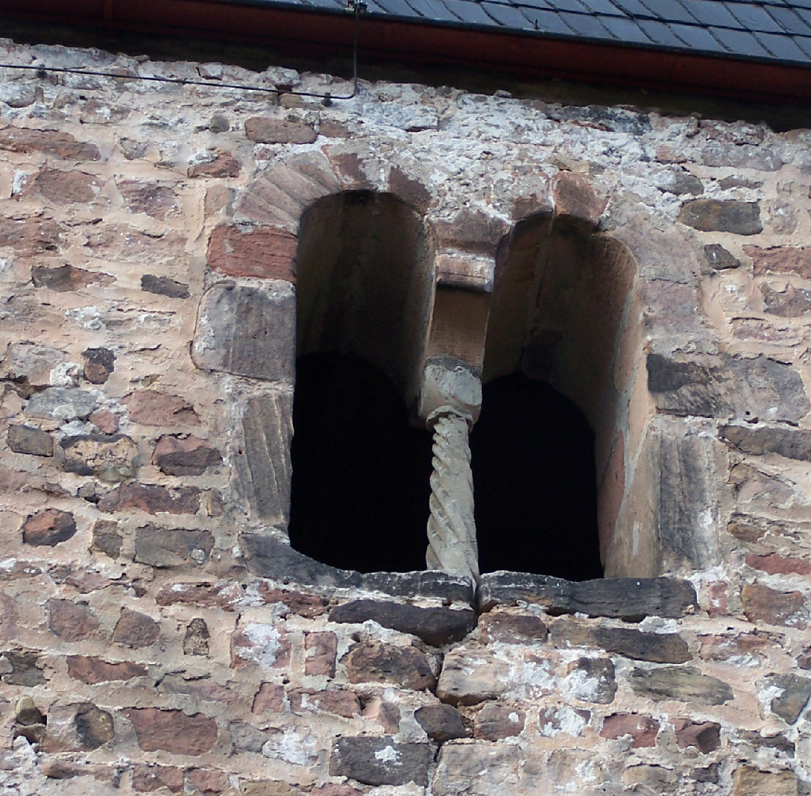 Details at the belltower in Stadtlengsfeld.